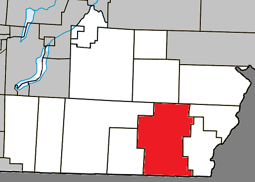 Location of Saint-Herménégilde within Coaticook Regional County Municipality.